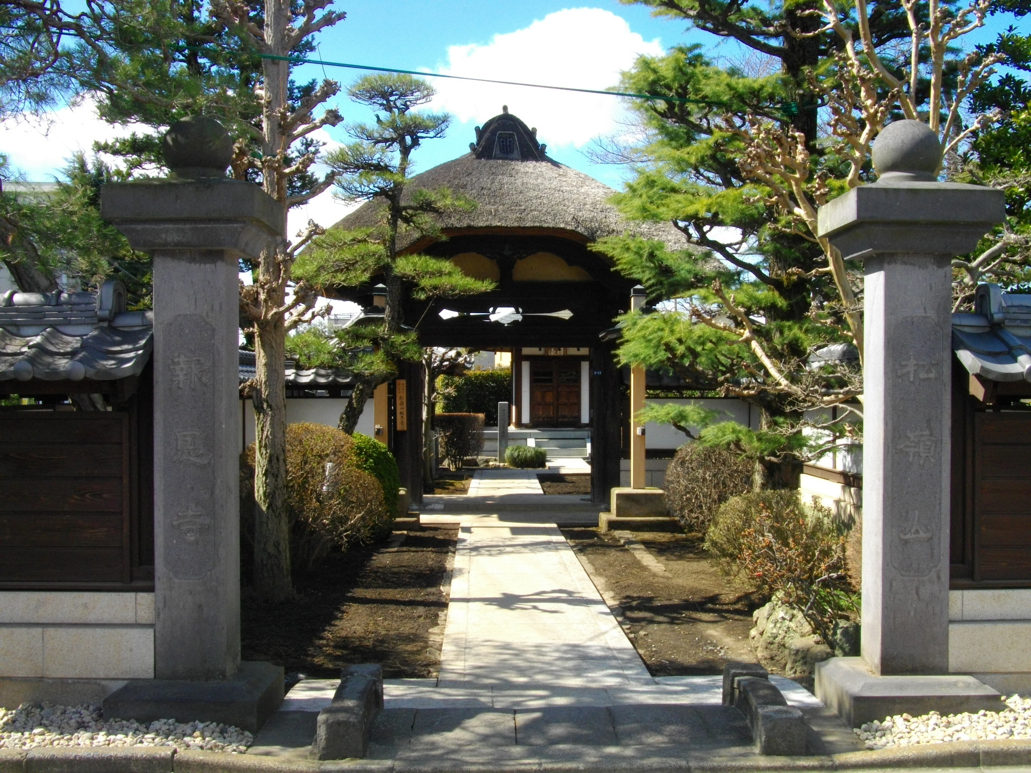 Hoon-ji (Utsunomiya)